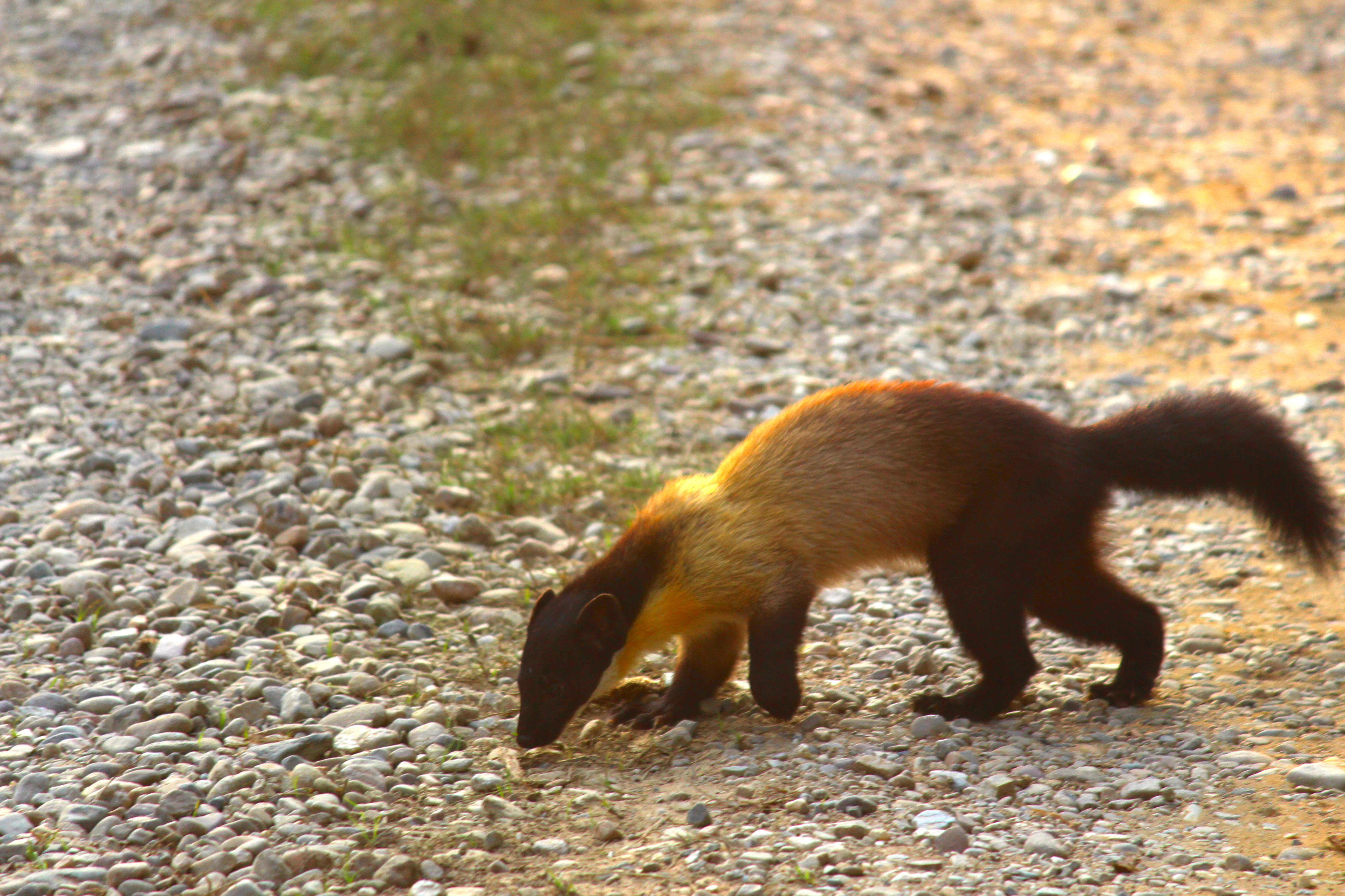 Yellow-throated marten from Jim Corbett Tiger Reserve, Ramnagar, Nainital, Uttarakhand, India